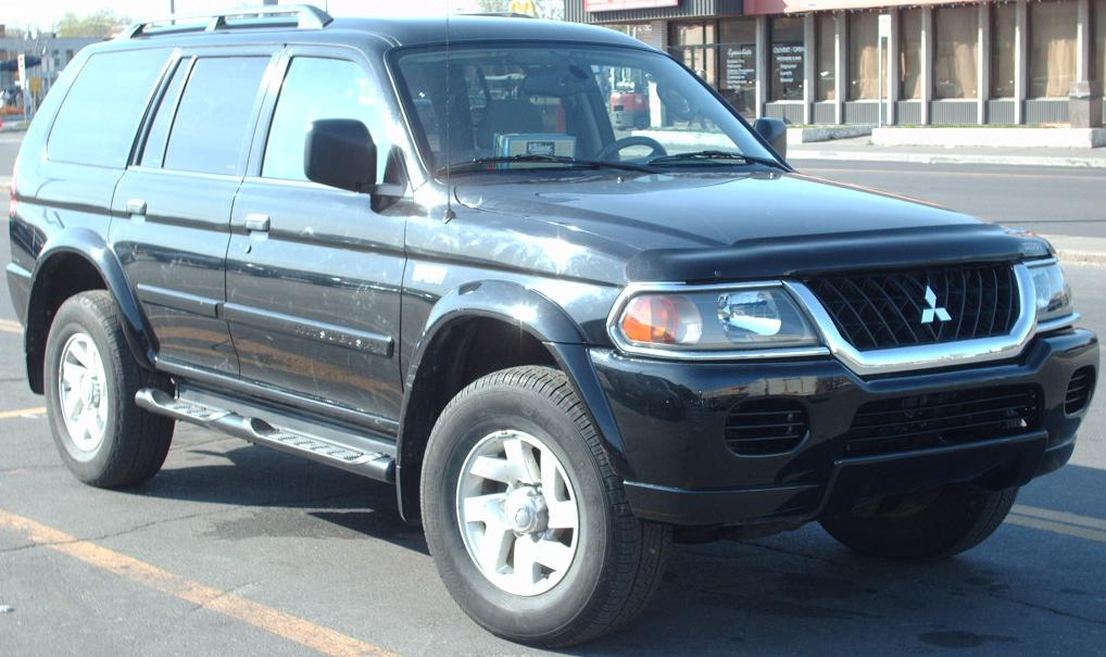 2003-2004 Mitsubishi Montero Sport photographed in Montreal, Quebec, Canada.